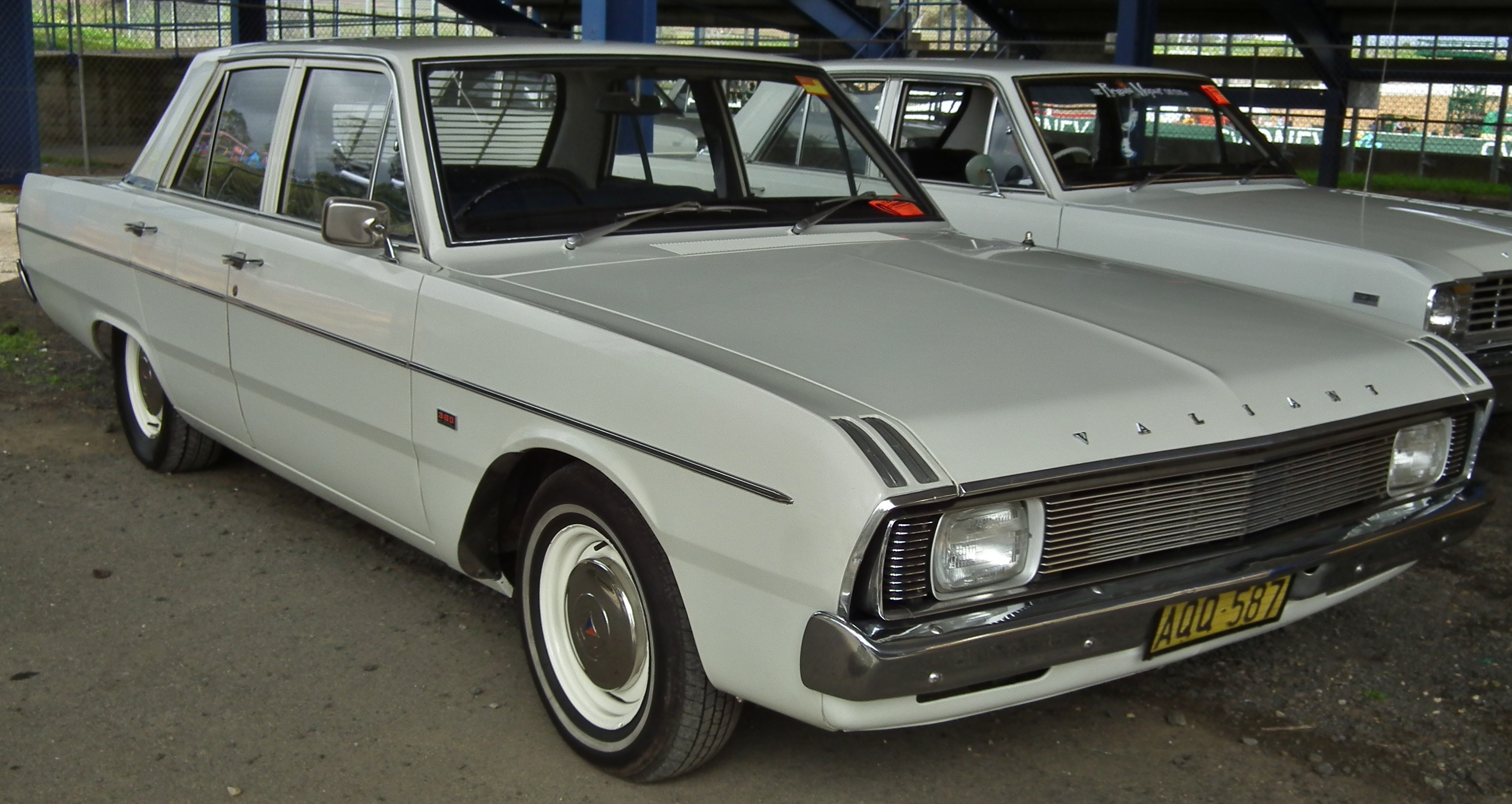 1971 Chrysler VG Valiant sedan. Taken at Shannon's Eastern Creek Classic 2011, held at Eastern Creek Raceway Sydney.